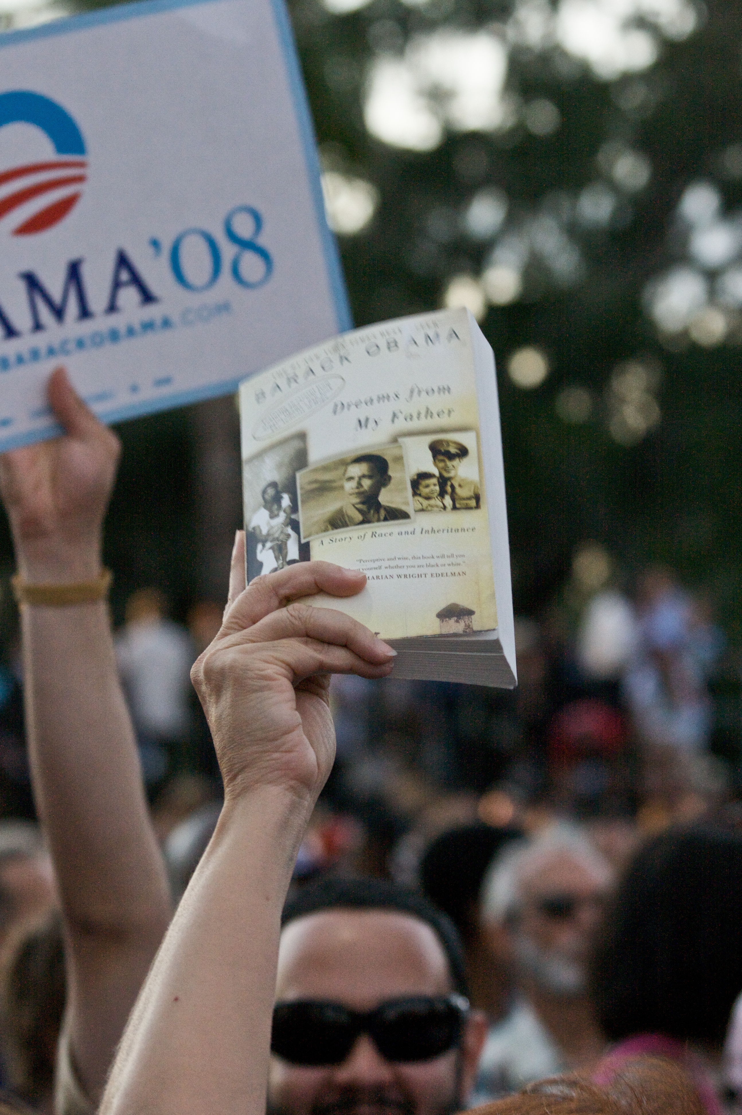 A supporter holding up one of Obama's books at a rally in Orlando, FL.